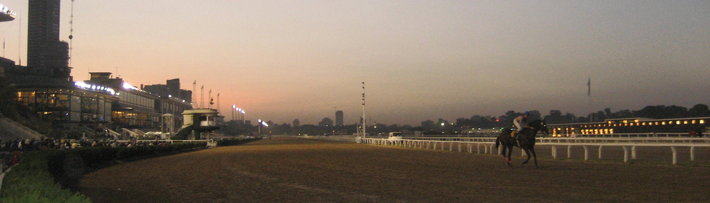 Racecourse at the Hipódromo Argentino (Buenos Aires)